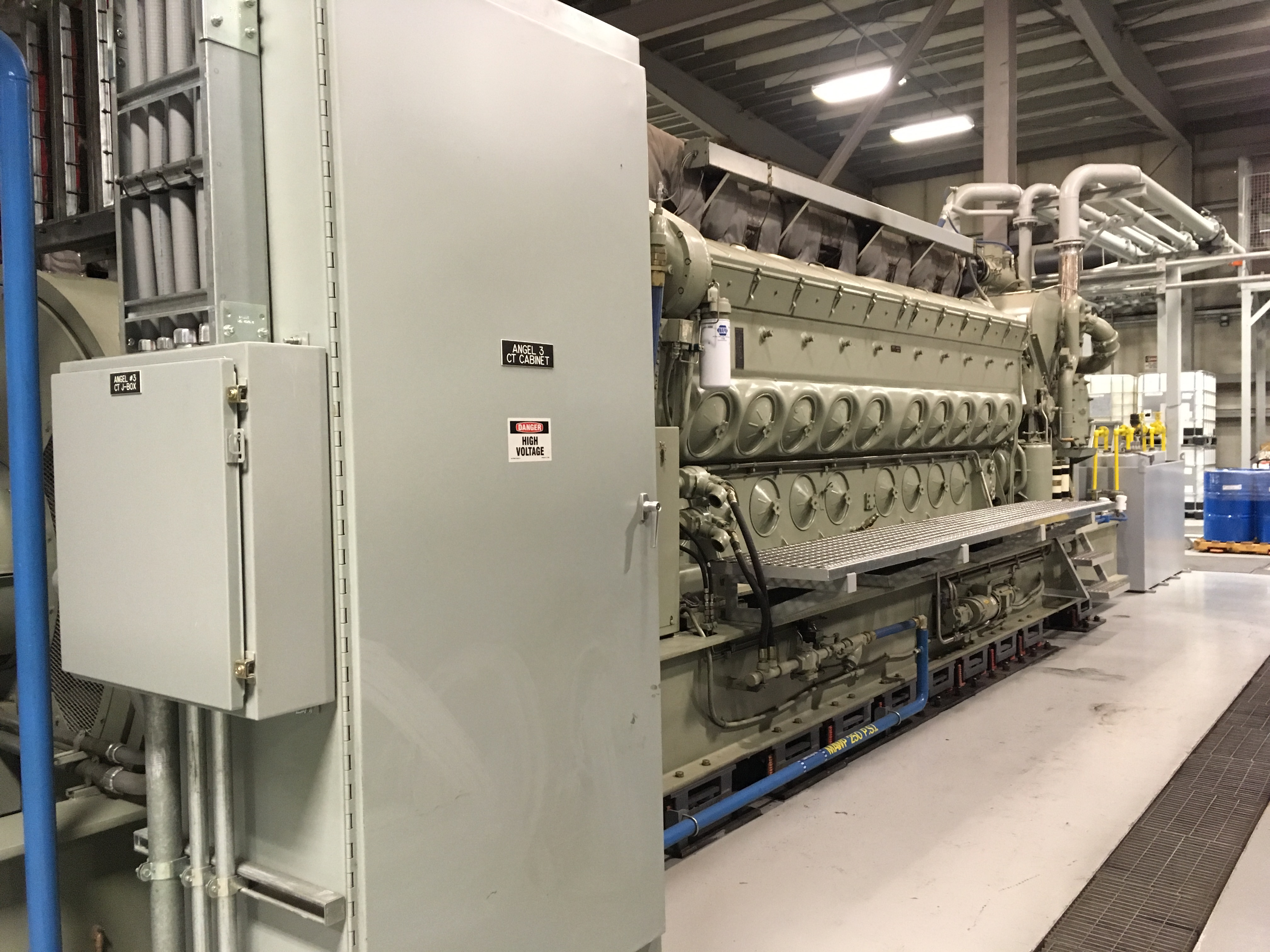 A view from within the generator room at the High-Frequency Active Auroral Research Program.